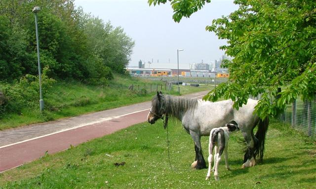 Grazing for Travellers' Horses, Riverside Park. The grassed areas of the business park provide grazing for travellers' horses along the side of this newly constructed dual cycleway and footpath. The buildings in the distance are on the north bank of the Tees.